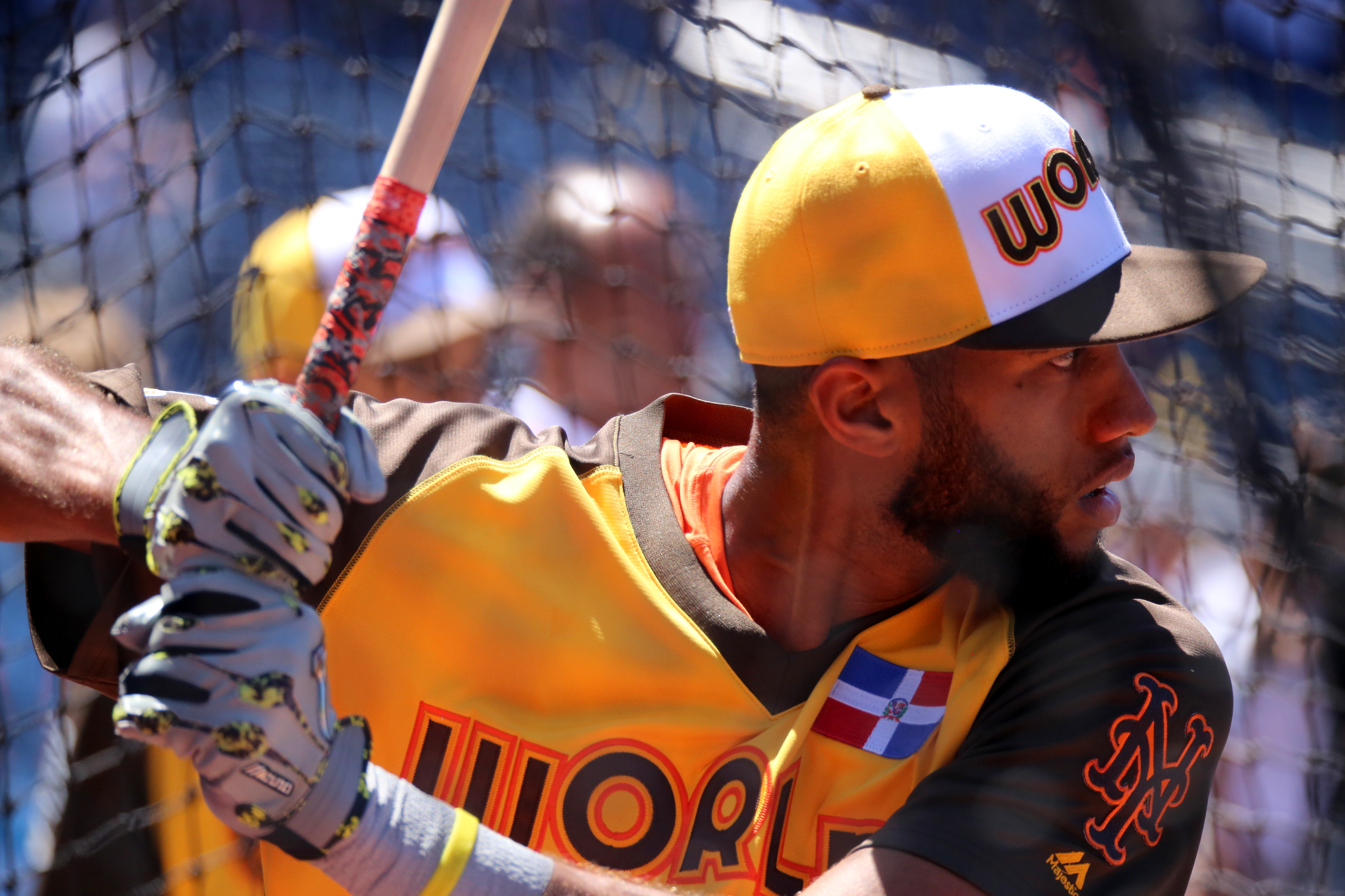 Mets prospect Amed Rosario takes BP before the SiriusXM All-Star Futures Game.